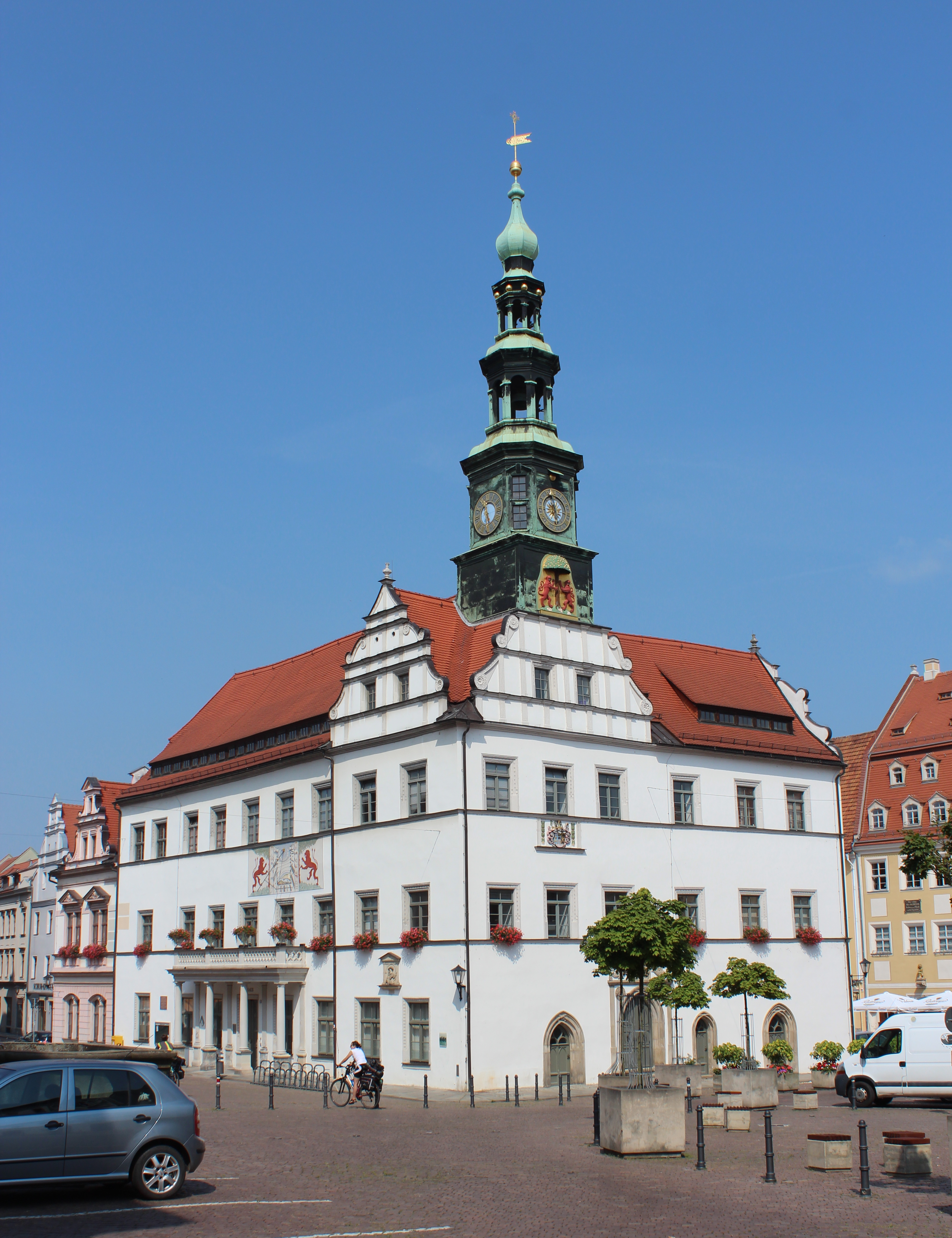 Rathaus von Pirna.